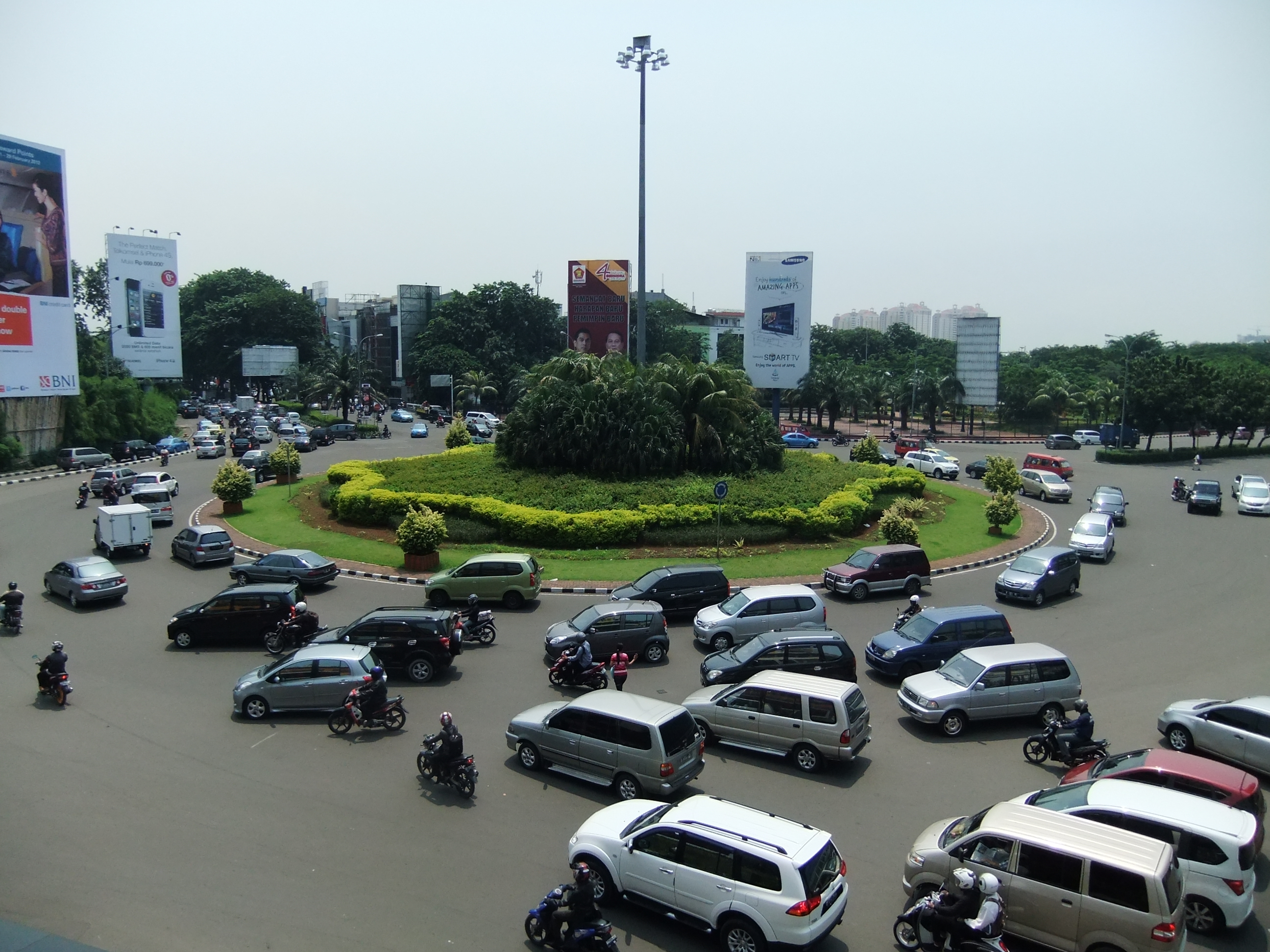 Bundaran Kelapa Gading Roundabout